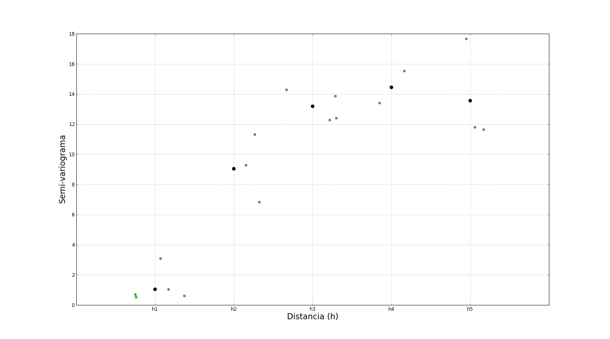 Example of semi-variogram where a given population Z was resampled for five different distances (h, in X axis) e calculated the semi-variogram value for each of the distances (in Y axis). The result is the visualization of the variation of the population when considering spatial distance. In green several value of variogram are calculated for a given distance with some tolerance, and in black the mean of those values.